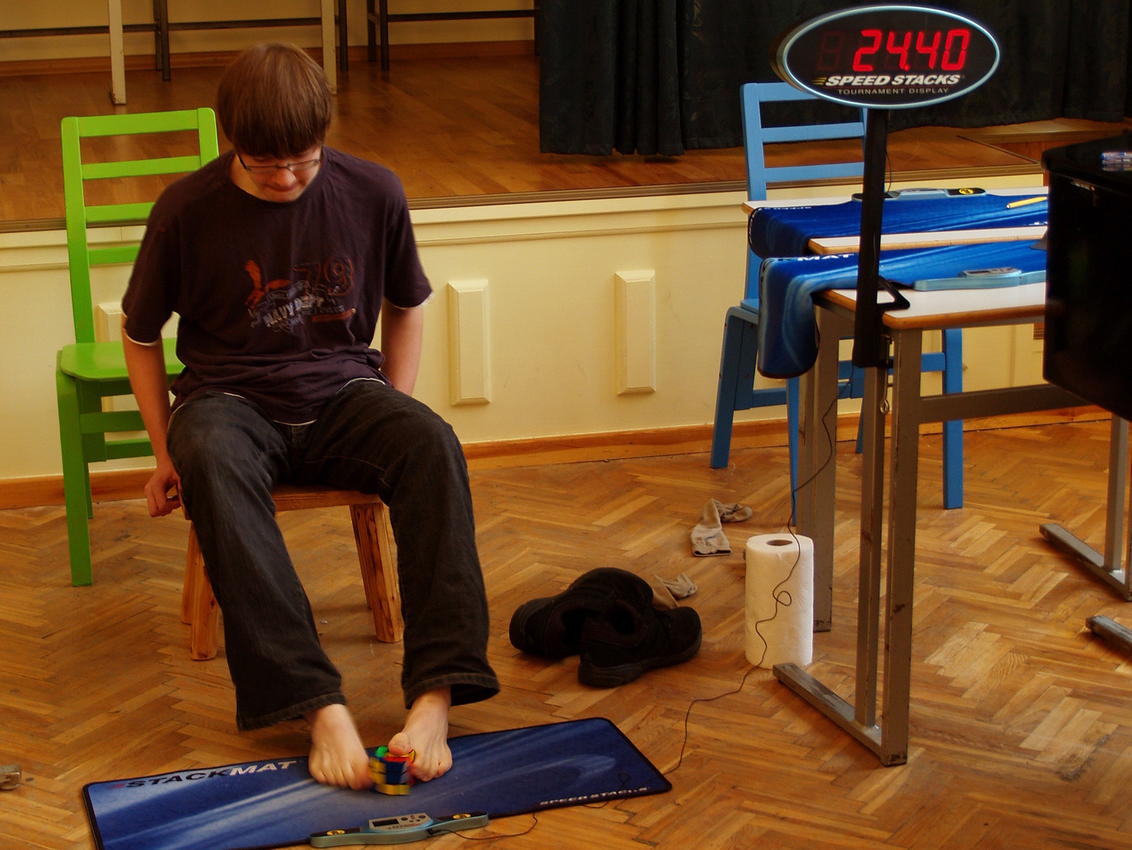 Speedcubing in Estonian Open 2009. Anssi Vanhala in making a new world record on the fastest solving of Rubik's cube with feet.See also: YouTube video